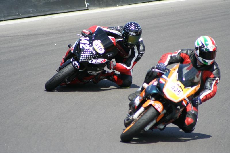 Motorcycle road race.